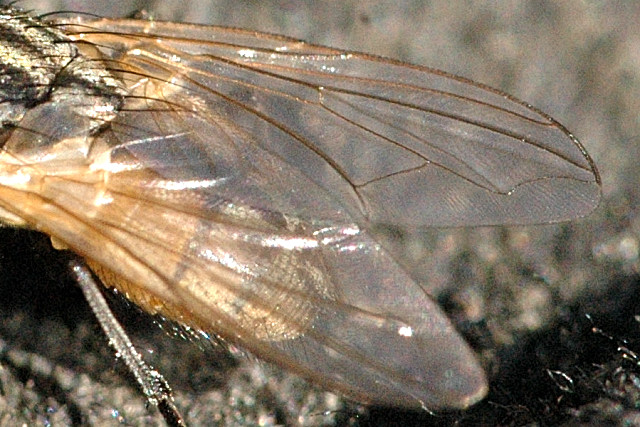 Picture taken in Commanster, Belgian High Ardennes . Species: Musca domestica, wing detail